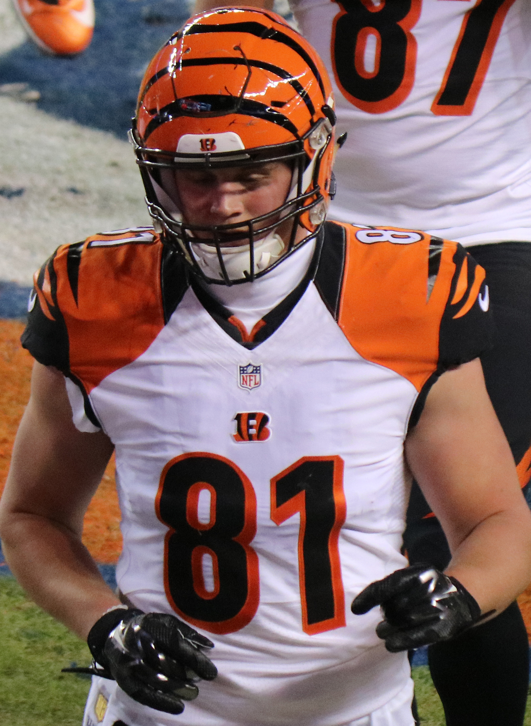 Tyler Kroft, a player on the National Football League.